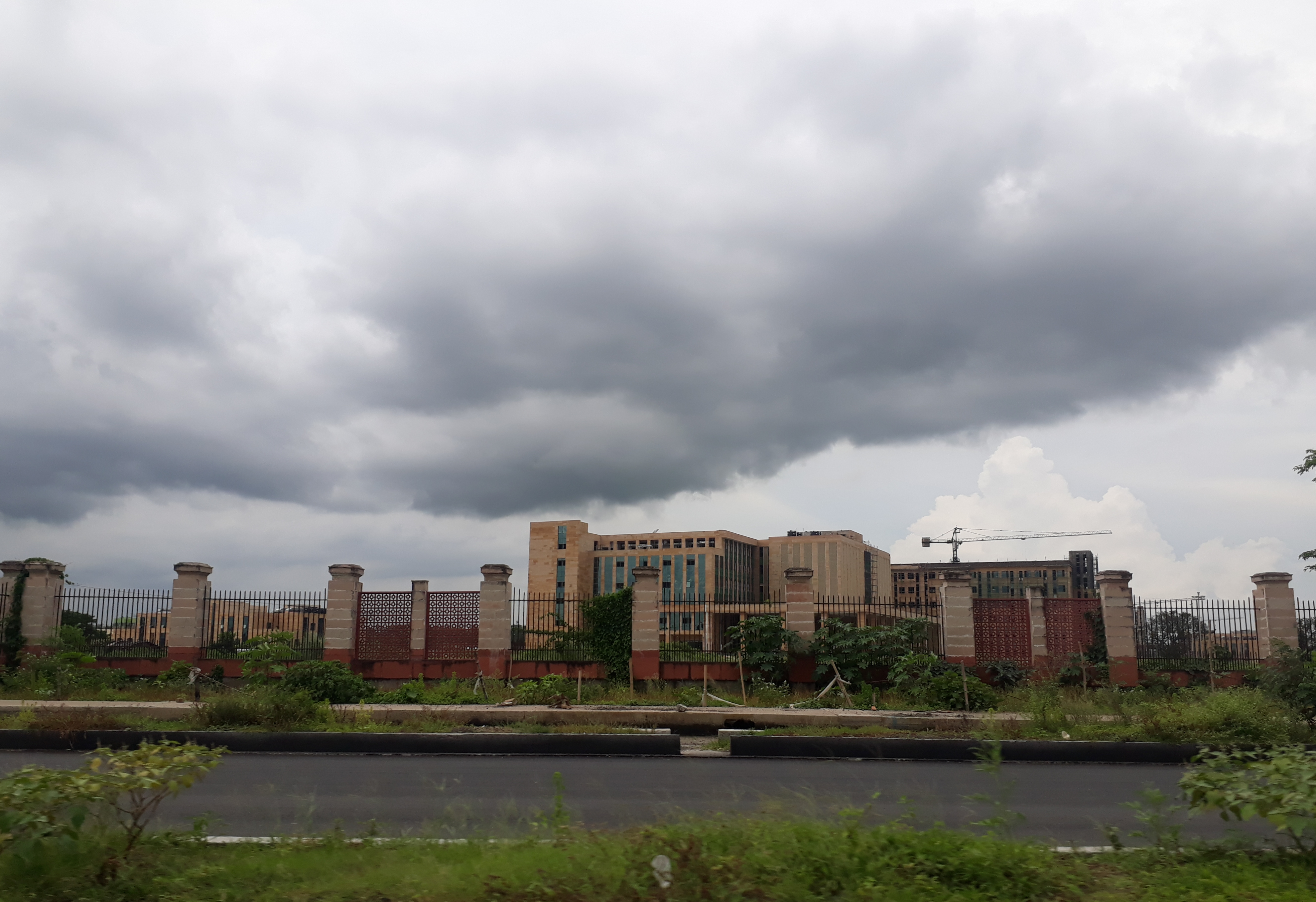 All India Institute of Medical Sciences, Kalyani,at Basantapur, Nadia, West Bengal